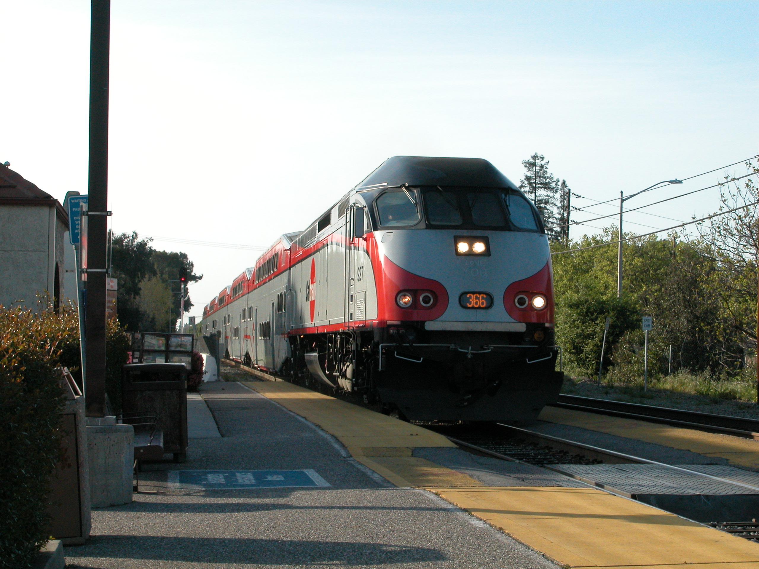 Caltrain "Baby Bullet" train set at California Avenue station